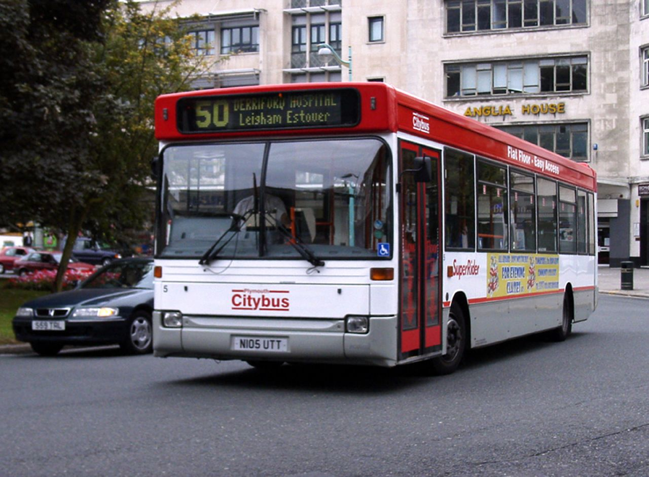 Plymouth Citybus 005 (N105 UTT), a Dennis Dart/Plaxton Pointer in Plymouth city centre on route 50.